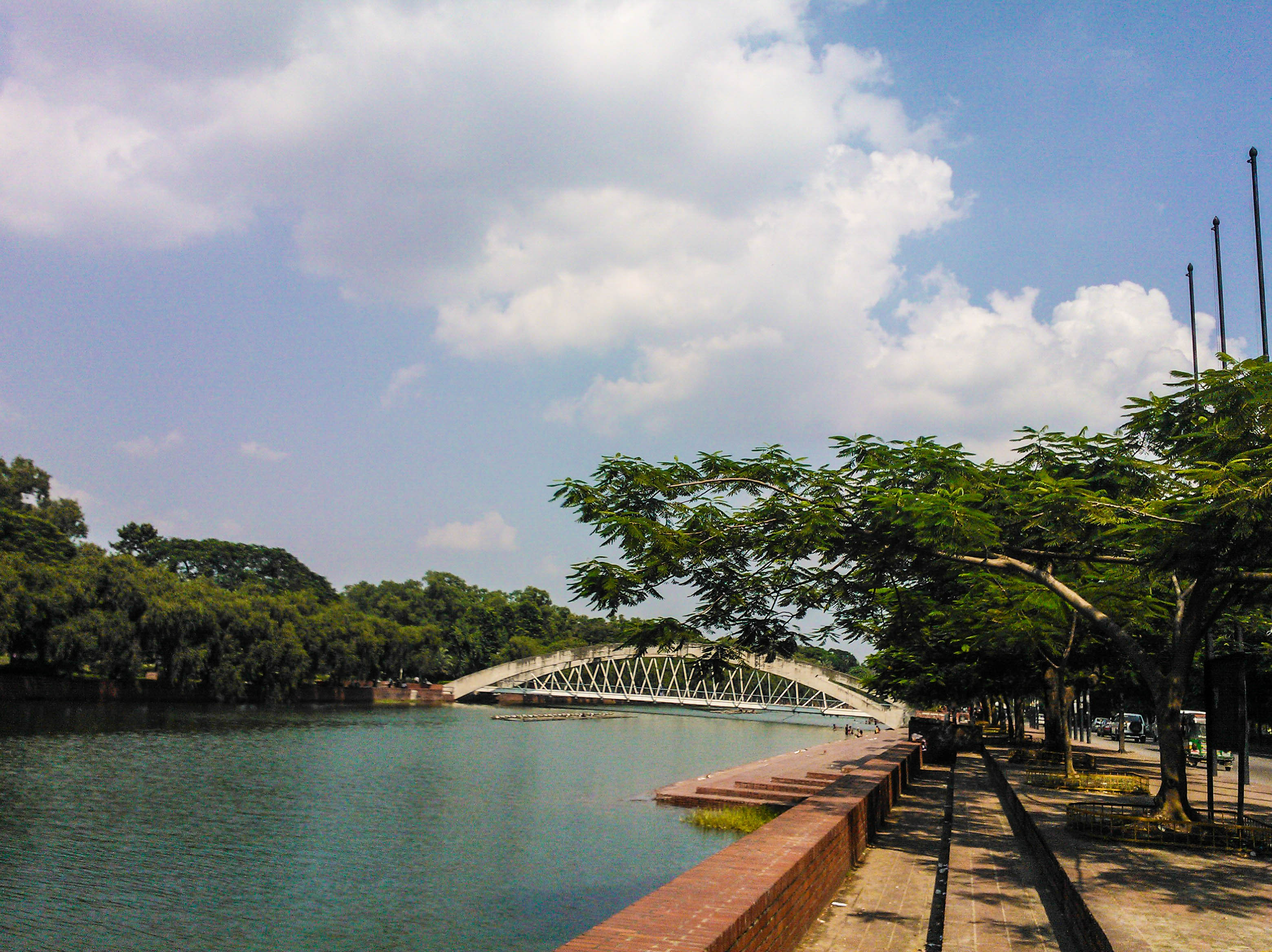 Crescent Lake - Chandrima Uddan, Dhaka.